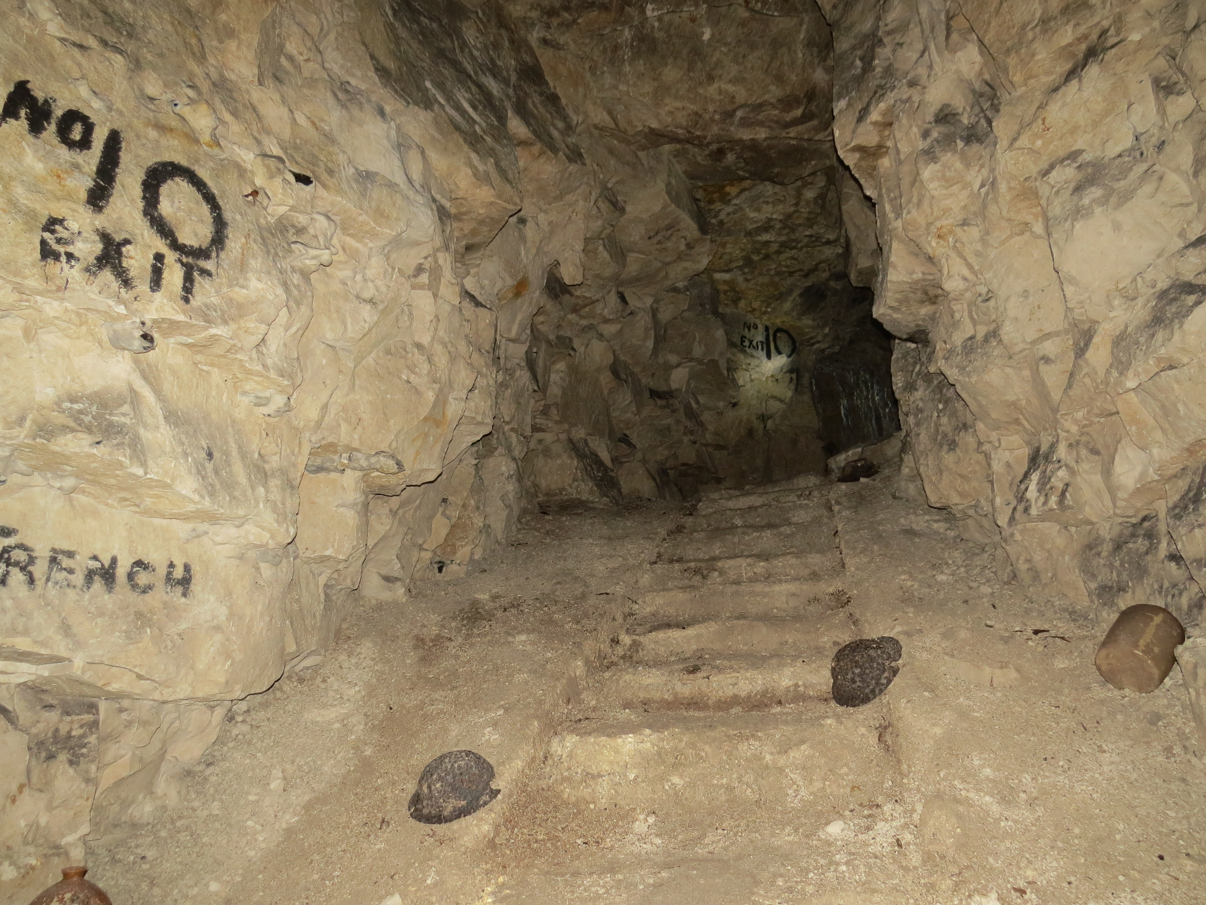 Exit No. 10 used to merge from the tunnels for the attack in the battle of Arras, Carrière Wellington Museum